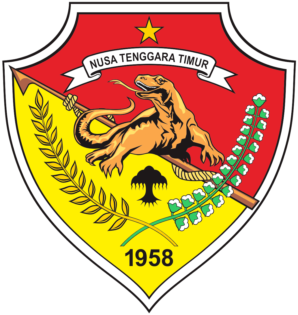 Coat of Arms of East Nusa Tenggara directly downloaded from East Nusa Tenggara Government's website. The common img used by wikipedia is inaccurate